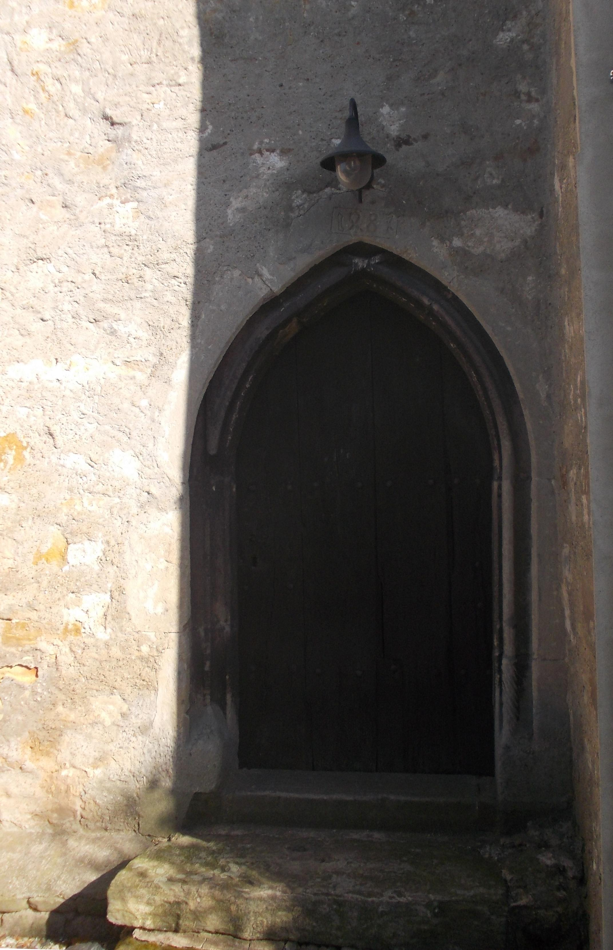 St. Peter's Church in Stössen (district: Burgenlandkreis, Saxony-Anhalt)